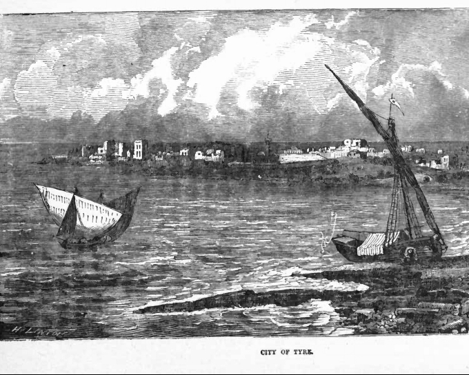 Tyre 1887